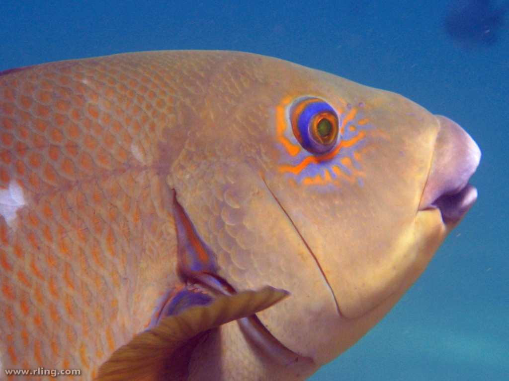 A female Eastern Blue Groper (Achoerodus viridis). Fairy Bower, Manly, NSW